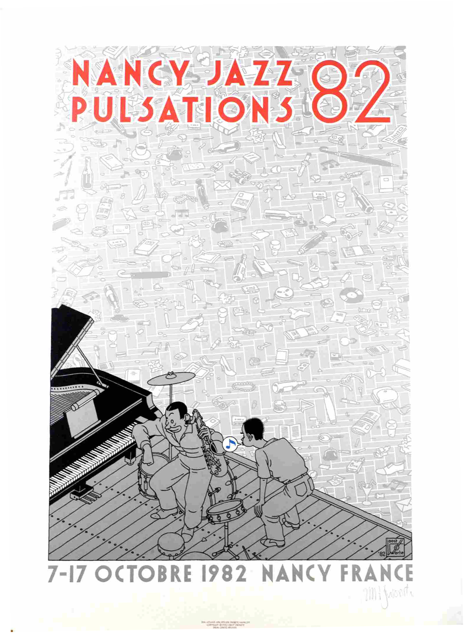 Poster for the Nancy Jazz Festival. Collectie Gederland